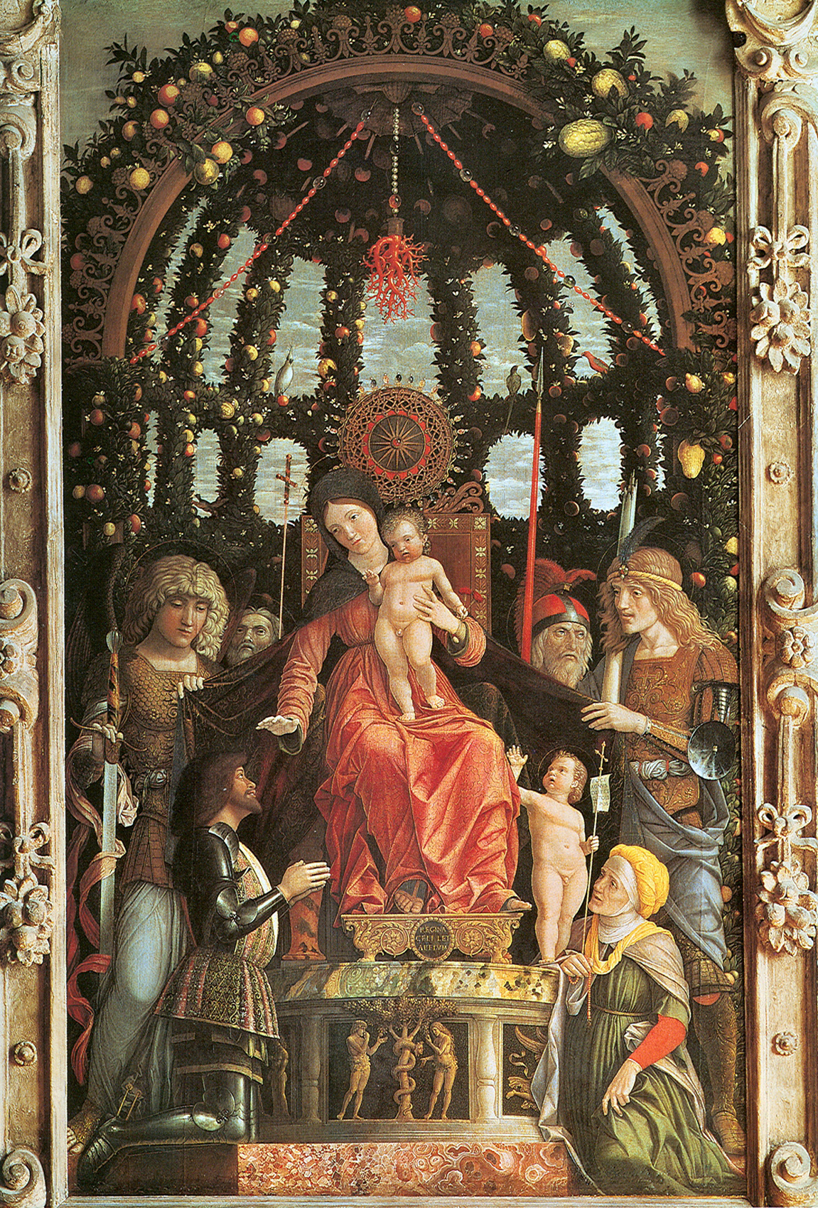 without frame